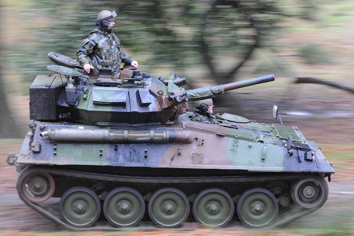 Scorpion CRVT